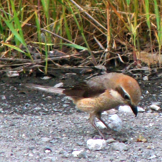 Bull-headed_shrike